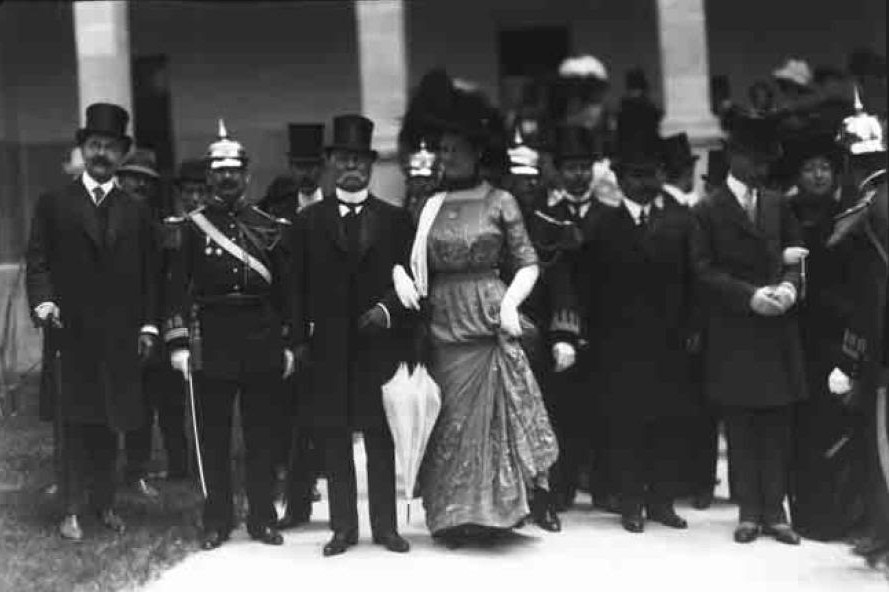 Porfirio Díaz with his wife and other aristocratic members, in the inaguration of General Asylum "La Castañeda", in September 1st. of 1910.